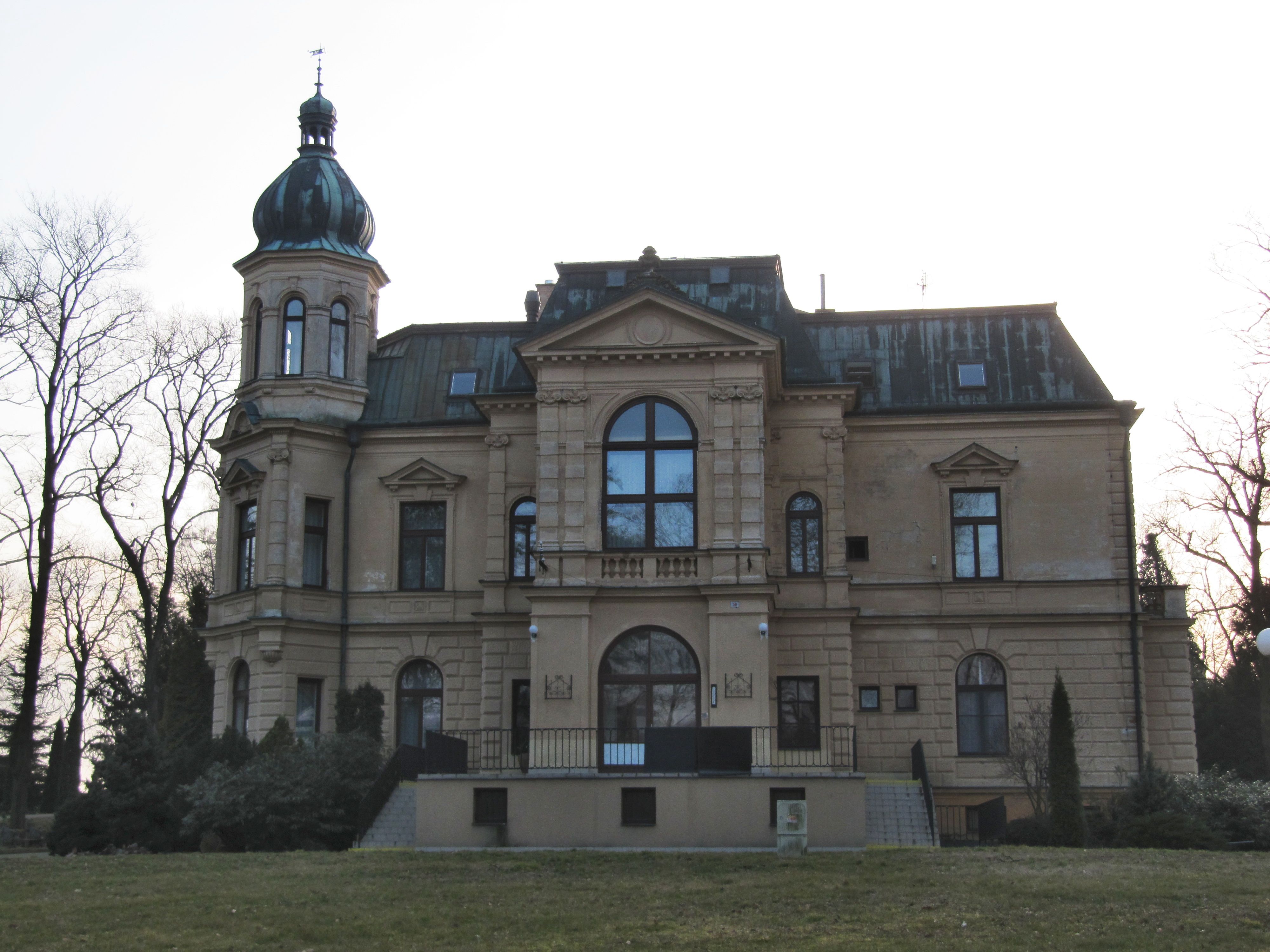 Zborovice, Kroměříž District, Czech Republic. Castle. New Castle (Friess Villa), a four-wing building with a courtyard, built between 1890-1891 by Fellner und Helmer.